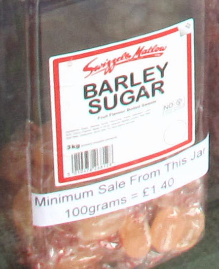 Barley sugar, detail from "Seen in a Rye shop window."